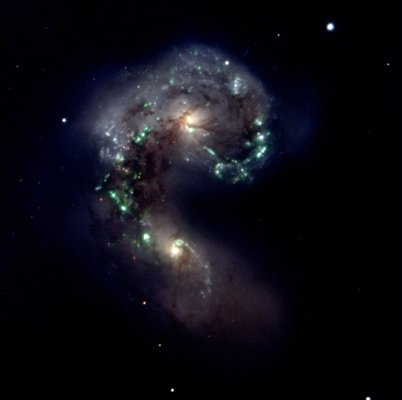 One of the first images from the new VIMOS facility, obtained right after the moment of "first light" on Ferbruary 26, 2002. It shows the famous "Antennae Galaxies" (NGC 4038/9), the result of a recent collision between two galaxies. As an immediate outcome of this dramatic event, stars are born within massive complexes that appear blue in this composite photo, based on exposures through green, orange and red optical filters. Individual exposures of 60 seconds each; image quality 0.6 arcsec FWHM; the field measures 3.5 x 3.5 arcmin2. North is up and East is left. ID: 09a-02 Press Release: 04/02 Object: NGC 4038 Telescope: UT3/Melipal Instrument: VIMOS